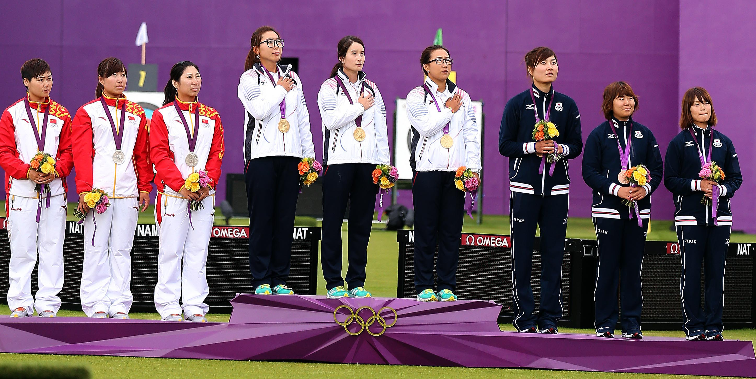 2012 London Olympic Games Korea Archery Women's Team won the gold medal 2012.7.30. Photo by Korean Olympic Committee Ministry of Culture, Sports and Tourism Korean Culture and Information Service 2012 런던 올림픽 한국 여자양궁 대표팀 단체전 금메달 획득 사진제공 - 대한체육회 문화체육관광부 해외문화홍보원